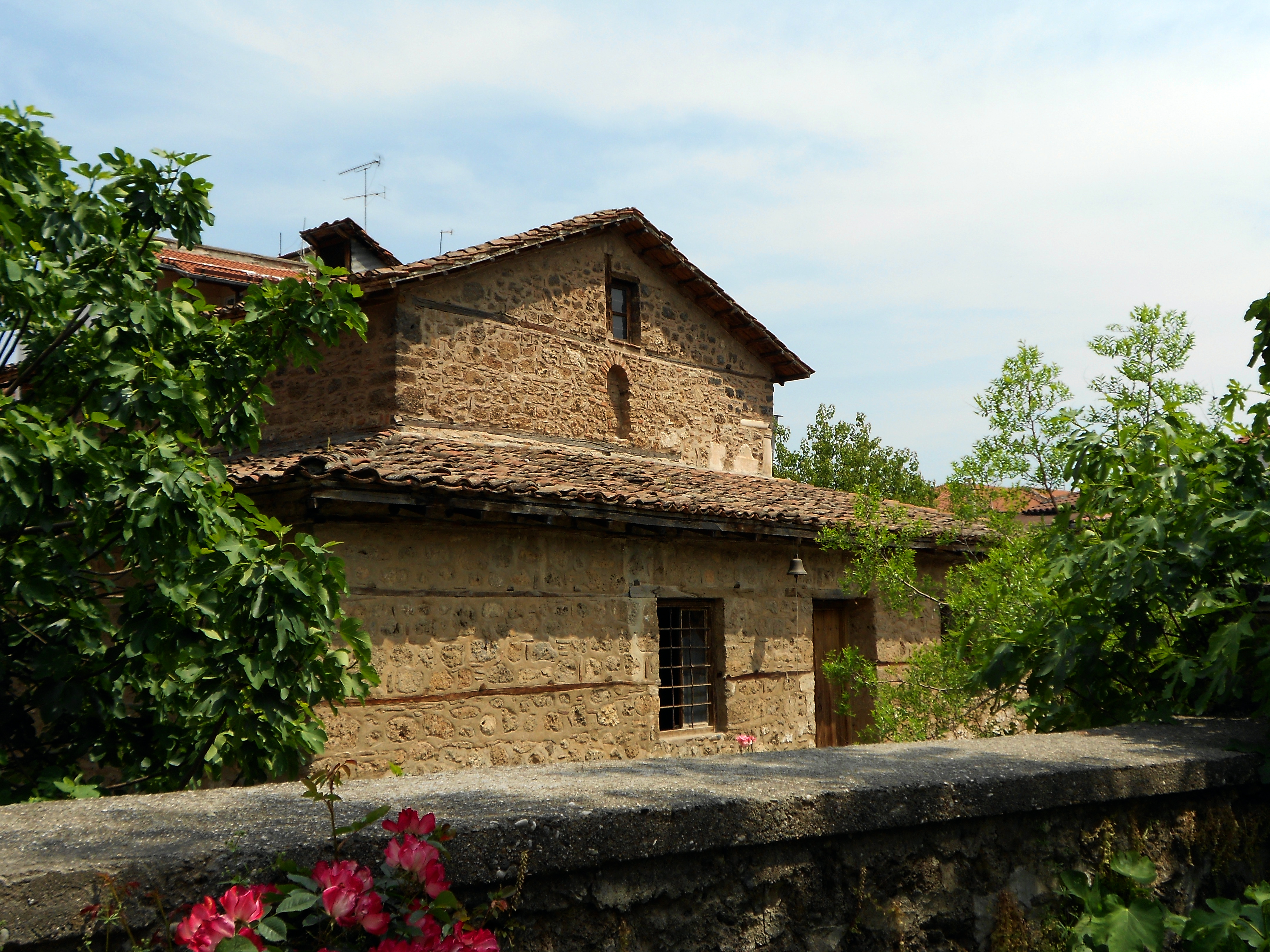 View of Christ's Resurrection Church in Veroia, Greece.